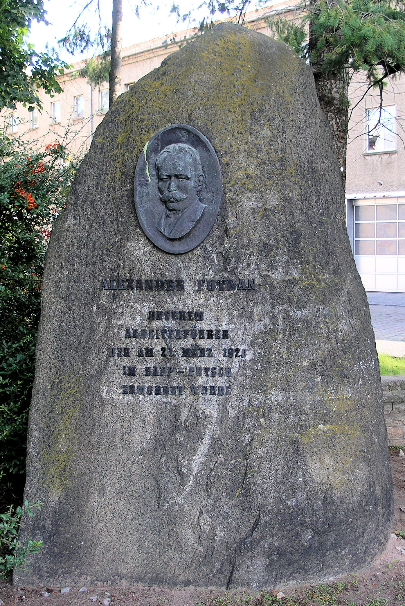 Memorial stone, Alexander Futran, Futranplatz, Berlin-Köpenick, Germany Koordinate:52°26′50″N 13°34′43″E / 52.44722°N 13.57861°E